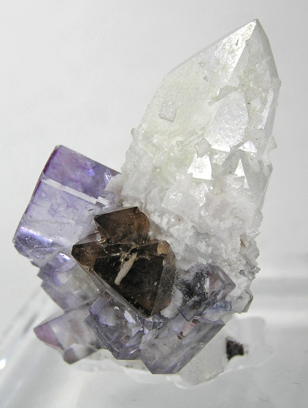 Fluorite, Quartz, Scheelite Locality: Yaogangxian Mine, Yizhang County, Chenzhou Prefecture, Hunan Province, China (Locality at ) Size: miniature, 5.5 x 3 x 2.5 cm Fluorite, Scheelite, and Quartz A very unusual and wonderfully aesthetic combo specimen that features gem fluorites in association with a cluster of razor-sharp scheelites � with little snowy calcite rhombs and a euhedral quartz crystal forming the backdrop! Small cleave, tiny an dhard to see, on one bottom corner of the fluorite only. Comes with a custom-cut lucite stand.